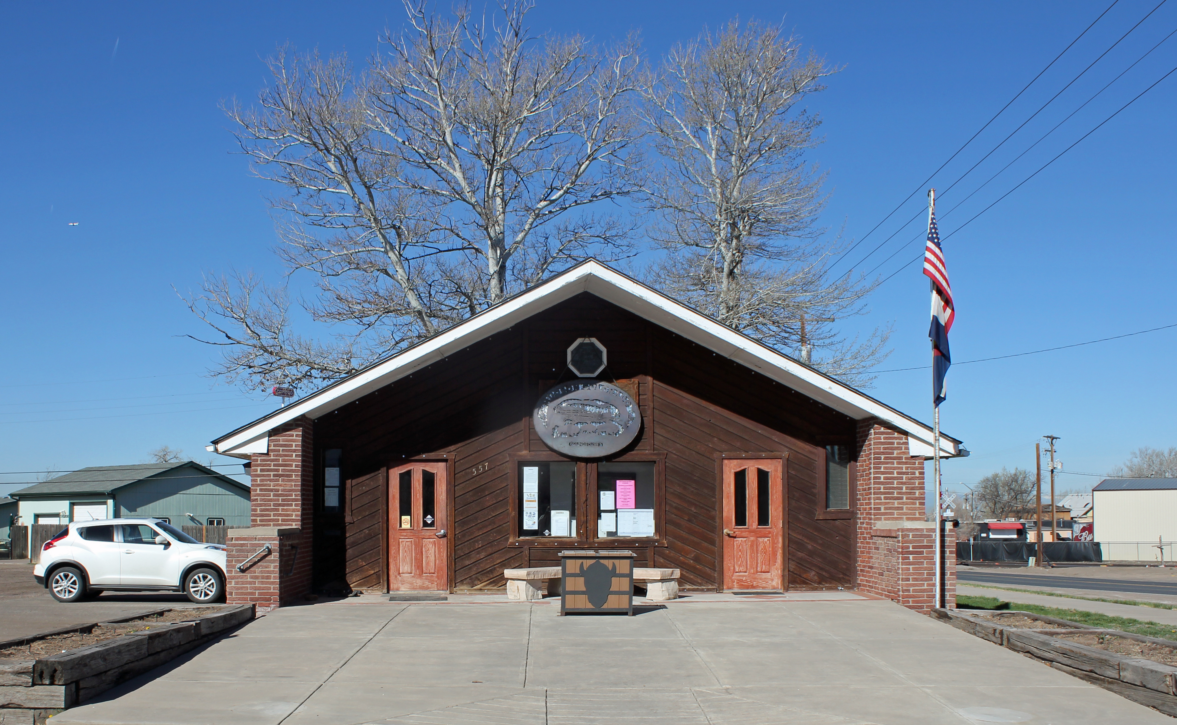 The Hudson, Colorado, Town Hall, located at 557 Ash Street in Hudson, Colorado.